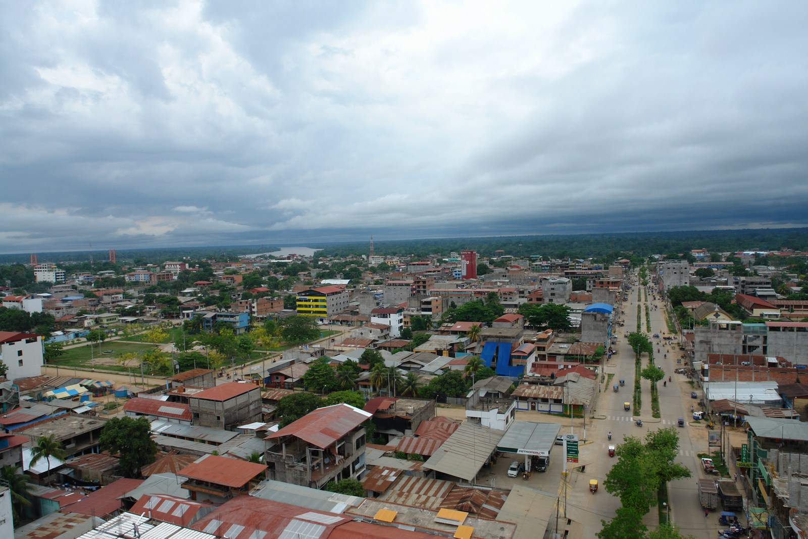 Panoramic view of Puerto Maldonado